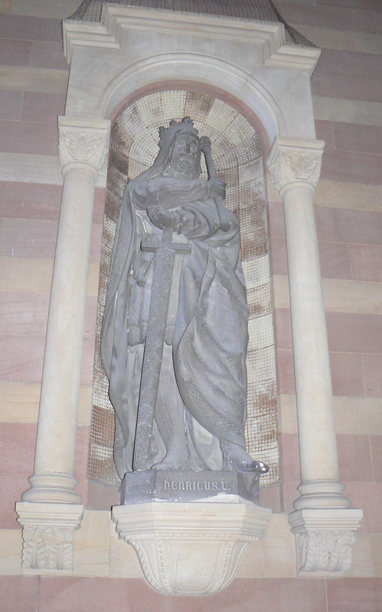 Henry V, Holy Roman Emperor